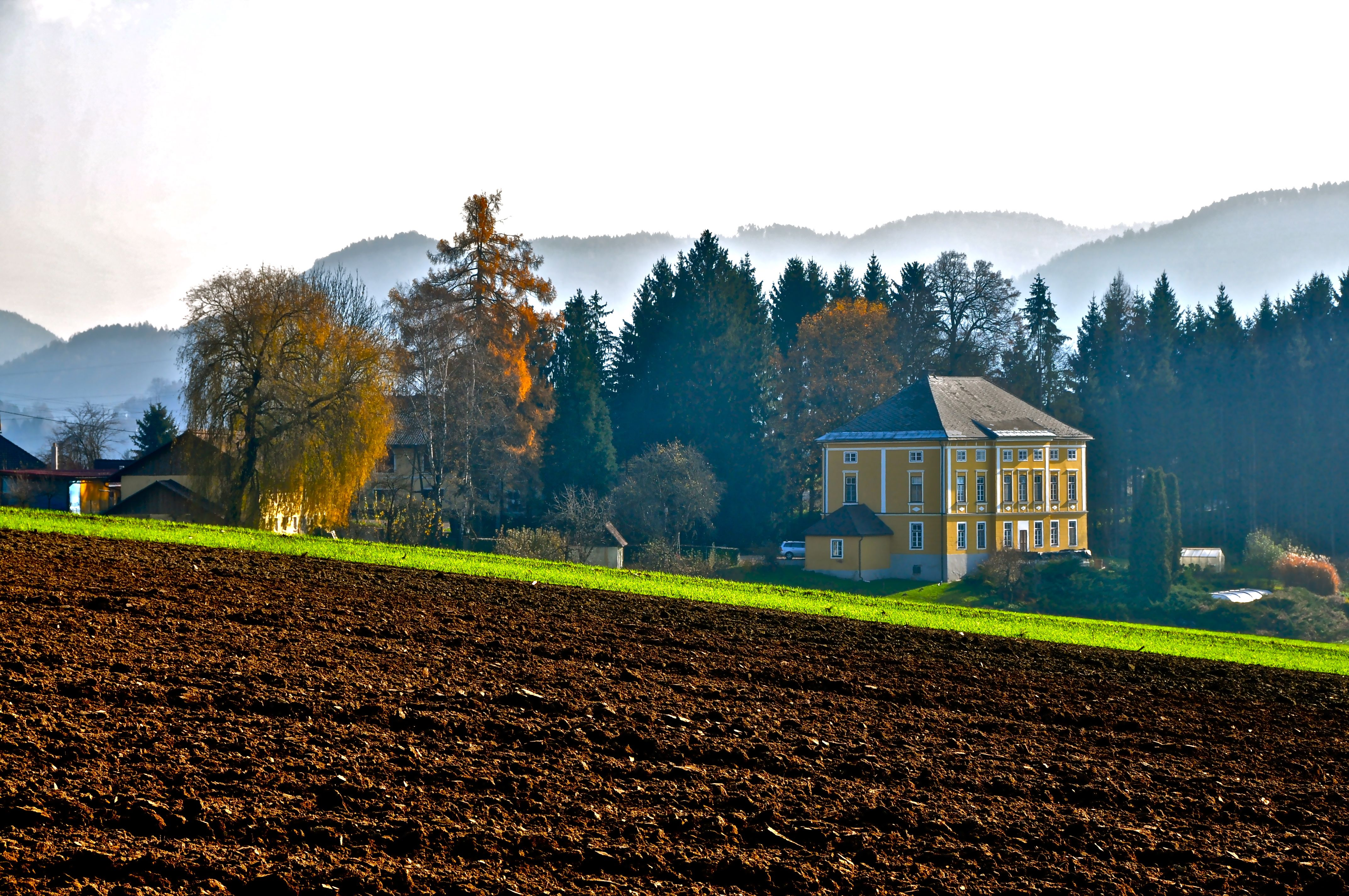 Castle Riedenegg at Lind, municipality Grafenstein, district Klagenfurt Land, Carinthia, Austria